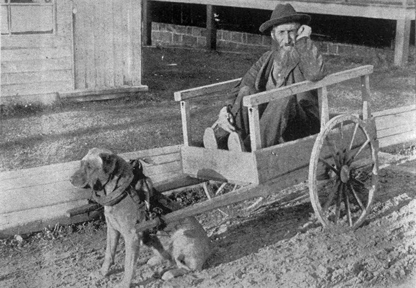 « Attelage typique d'un vieux pêcheur de la ville de Rimouski » par O. Lavallé, photographie tiré de L'album universel, vol. 20 no 98. p. 936 (5 mars 1904)